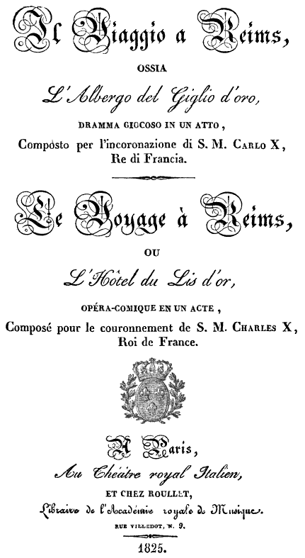 Gioachino Rossini - Il viaggio a Reims - titlepage of the libretto - Paris 1825